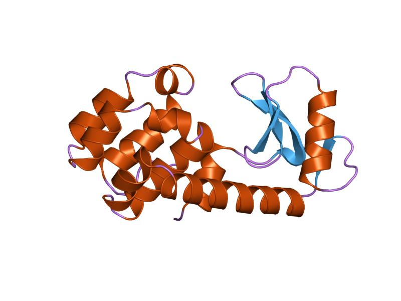 Cartoon representation of the molecular structure of protein registered with 2lzm code.